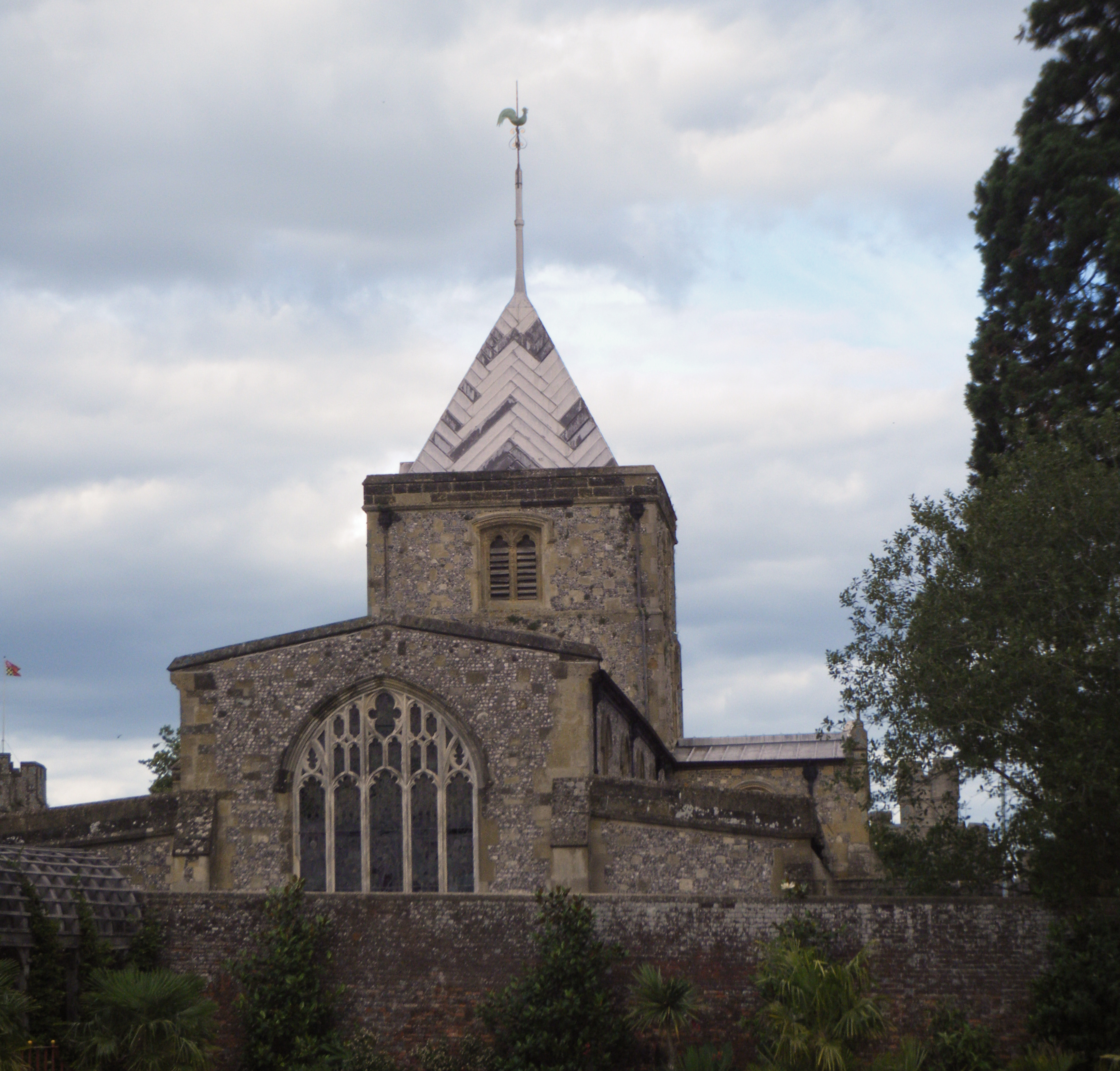 Photograph of the Fitzalan Chapel in Arundel taken from Arundel Castle gardens